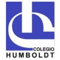 Emblem of the Caracas Humboldt School.